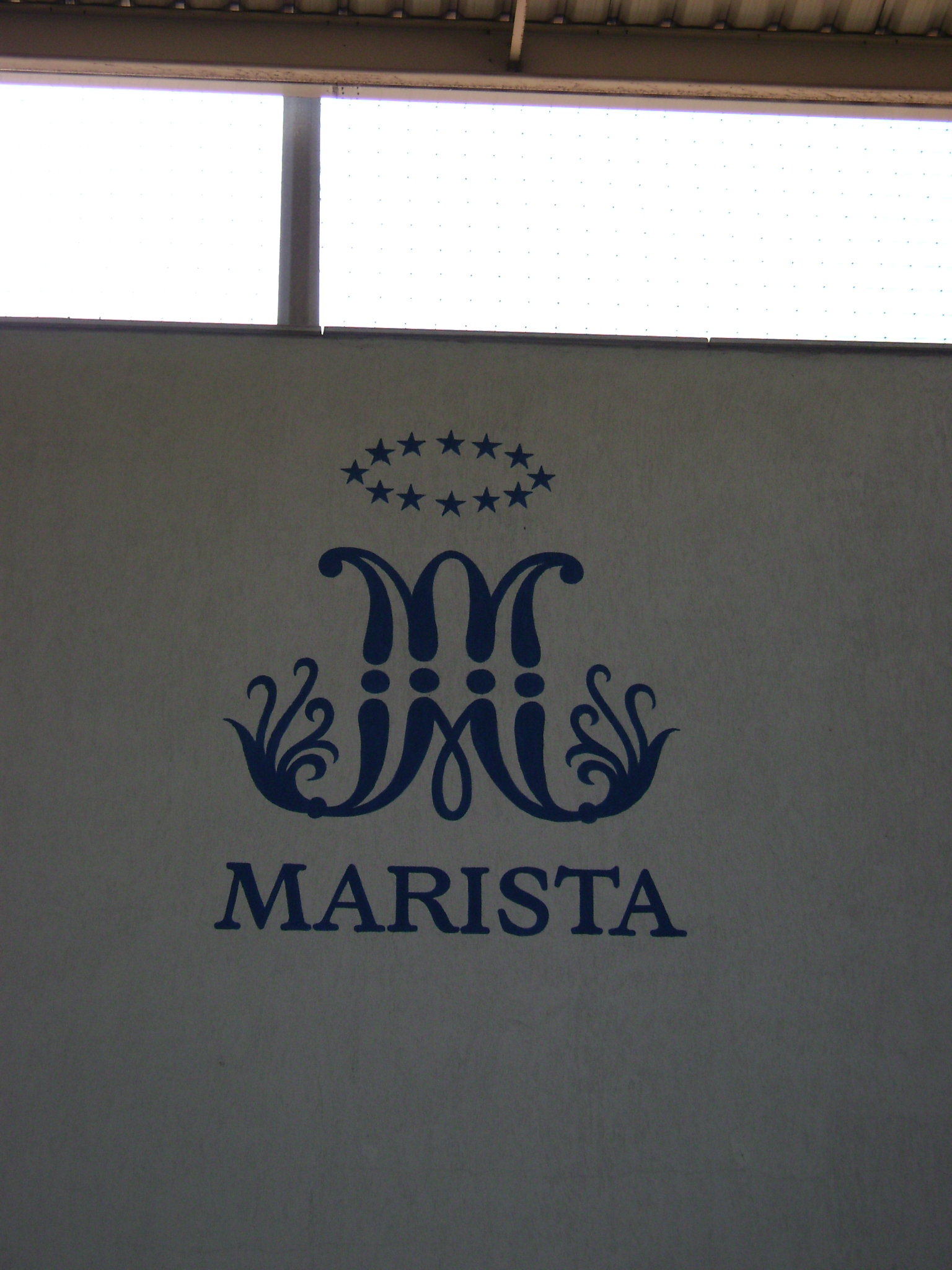 Parede do Colégio Marista Dom Silvério, em Belo Horizonte.